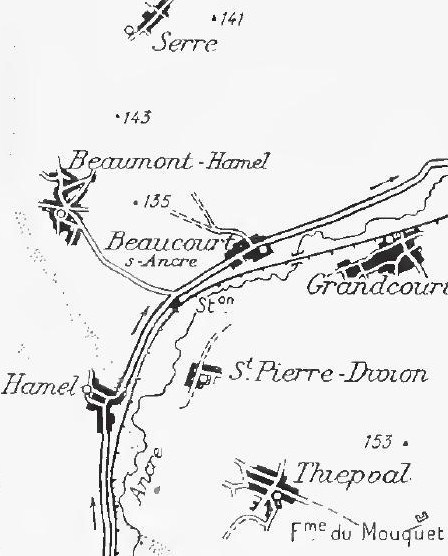 Diagram of the Ancre river from Grandcourt to Hamel, 1916 (Interweb seach failedto identify draughtsman)